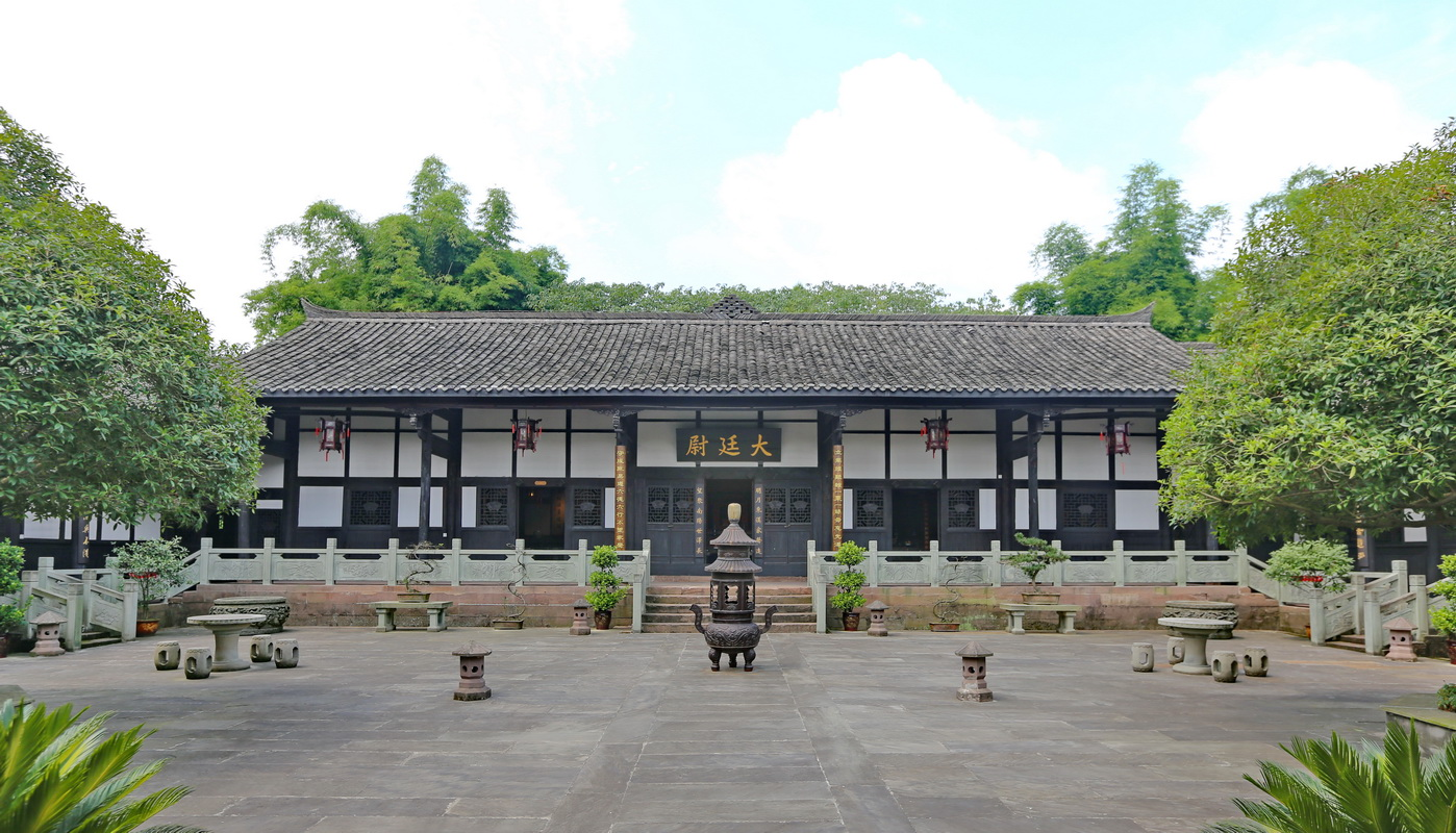 Hanlin Yuanzi (academy yard), one of the sites of Deng Xiaoping's adolescence activities